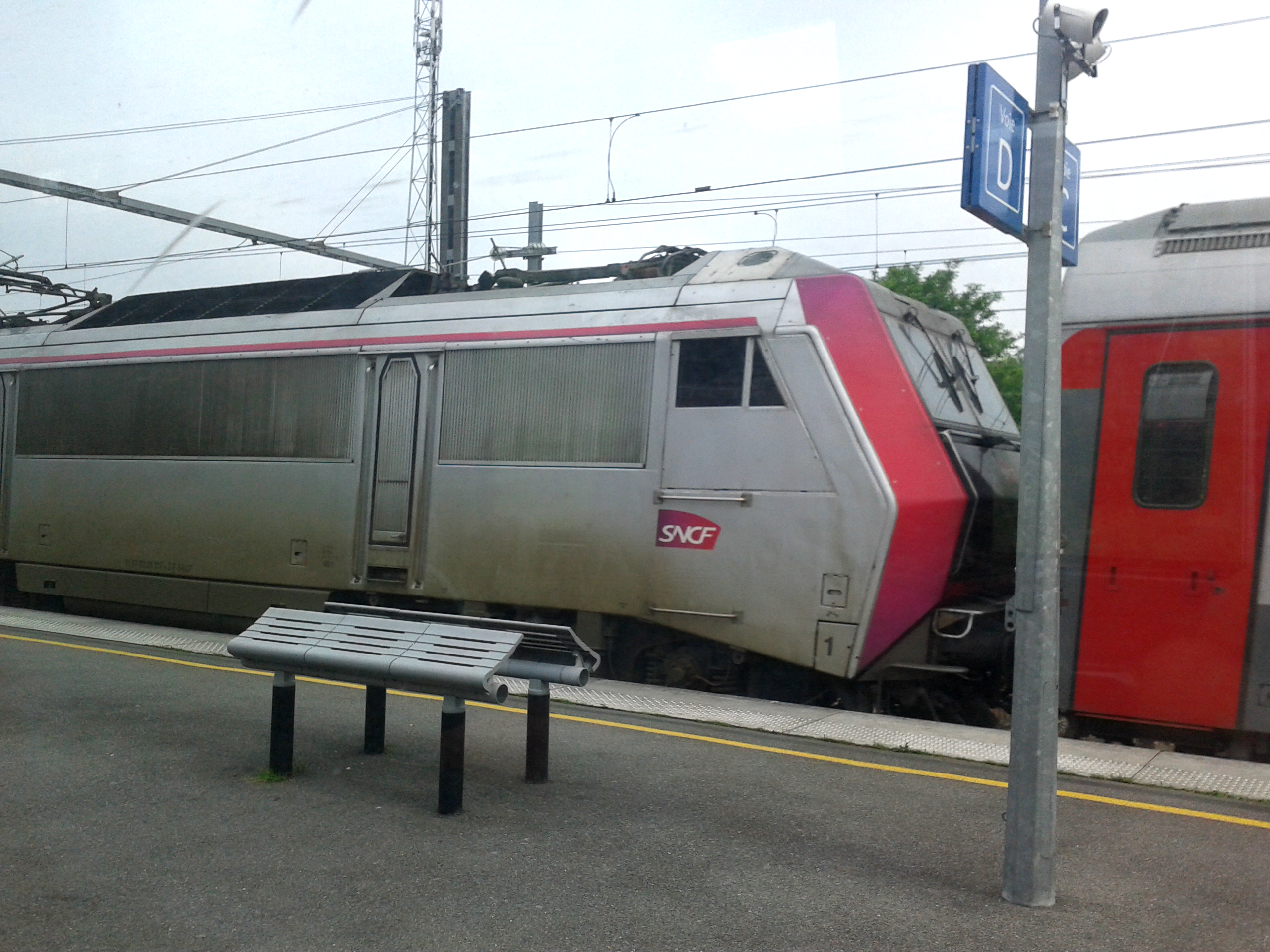 Moscow-Express seen at Vaires-Torcy station, France, pulled by an Class BB 26017 locomotive.